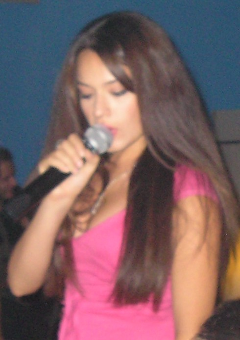 Elena Risteska performing in a club in Delcevo, Rep. of Macedonia